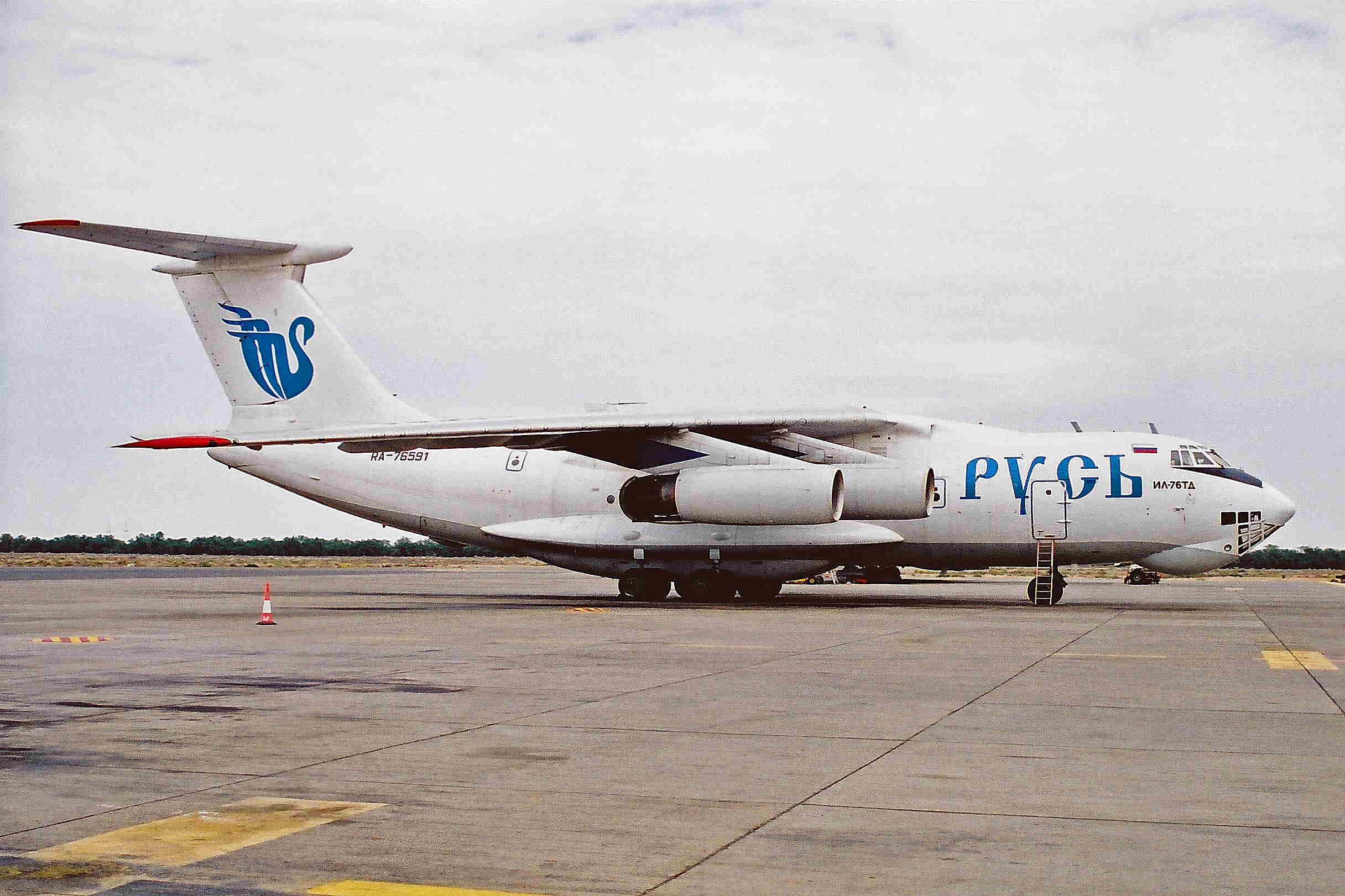 All I can find as an operator for this is 'Rusair'